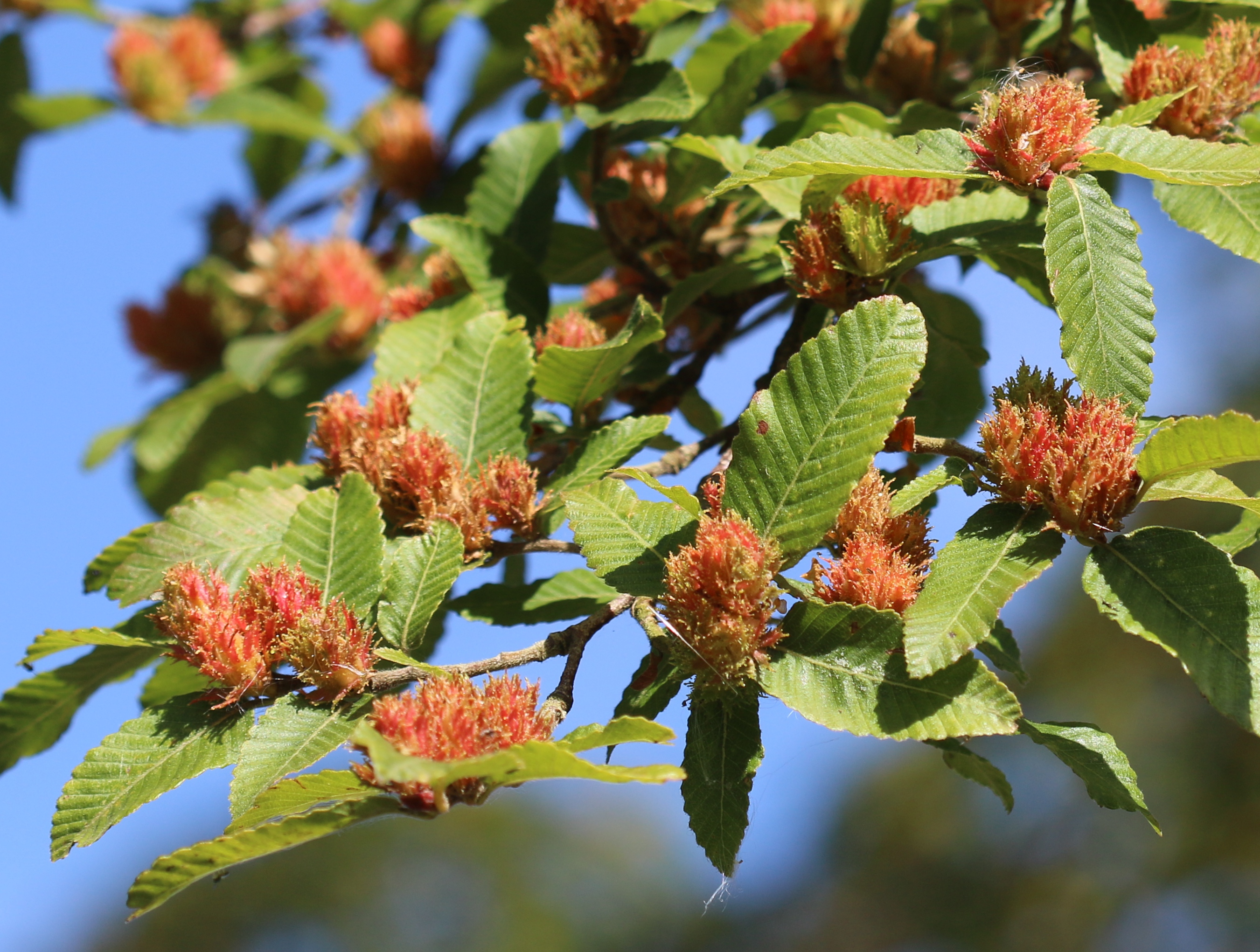 Saltoun wood, East Lothian, Scotland